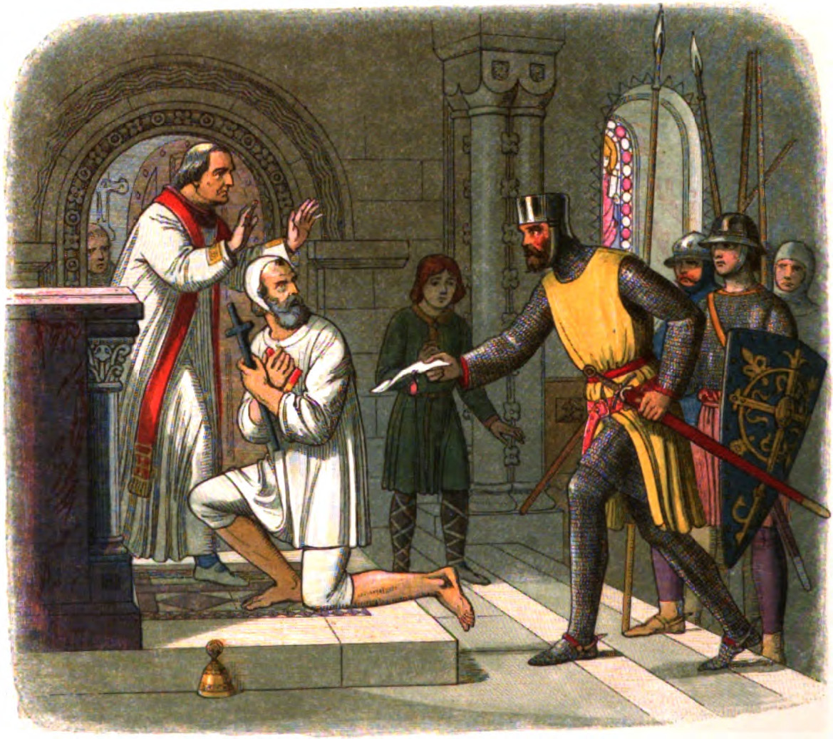 Hubert de Burgh, 1st Earl of Kent, is taken from sanctuary at Boisars by Geoffrey de Craucombe.